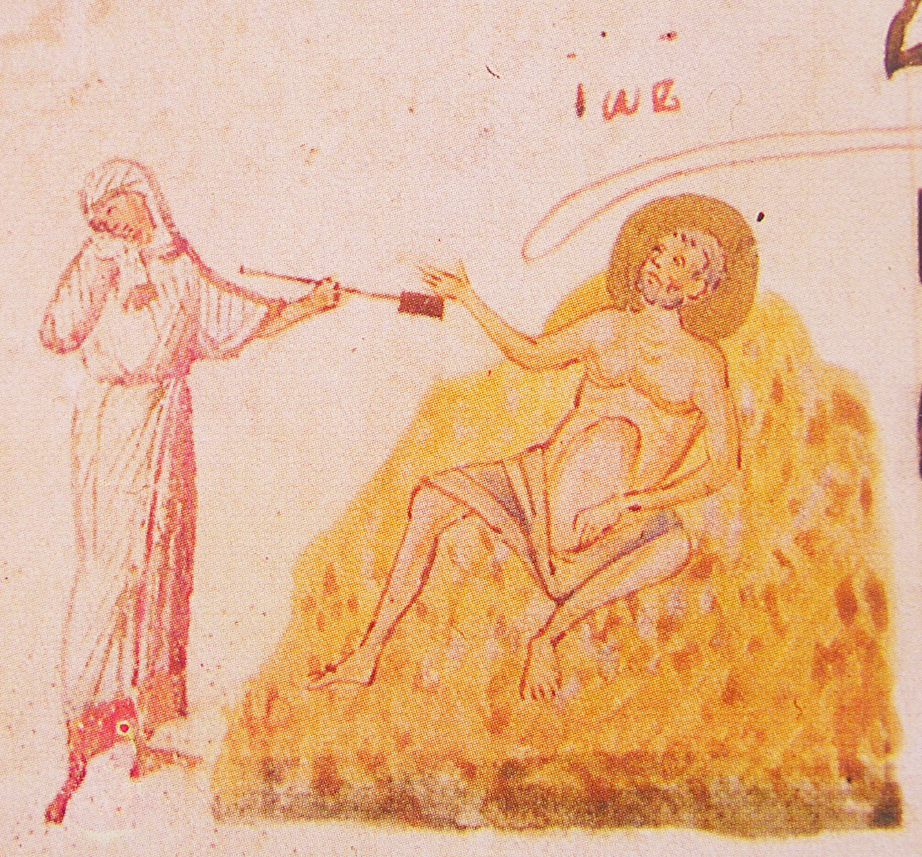 Kievan Psalter